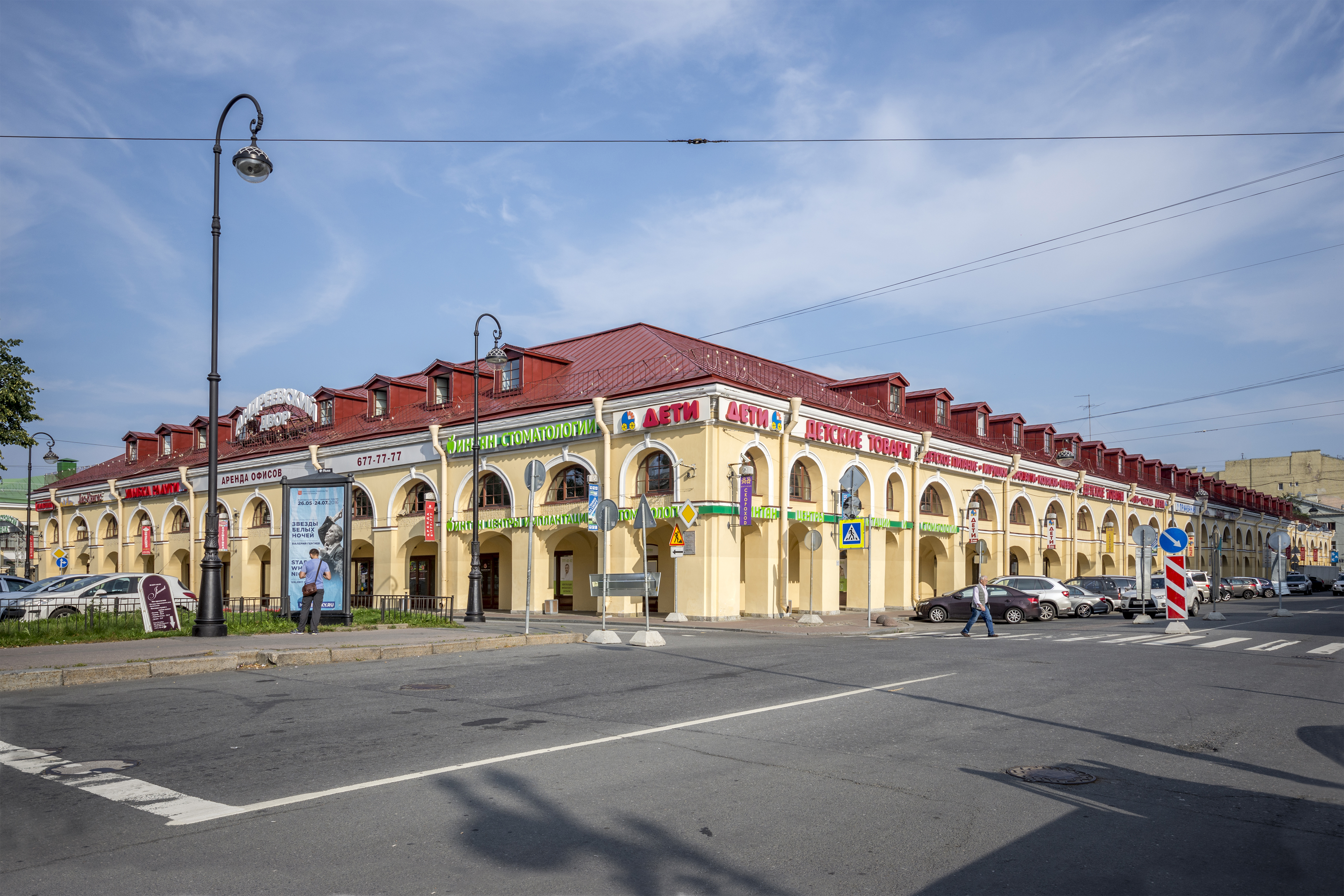 Andreevsky Market in Saint Petersburg